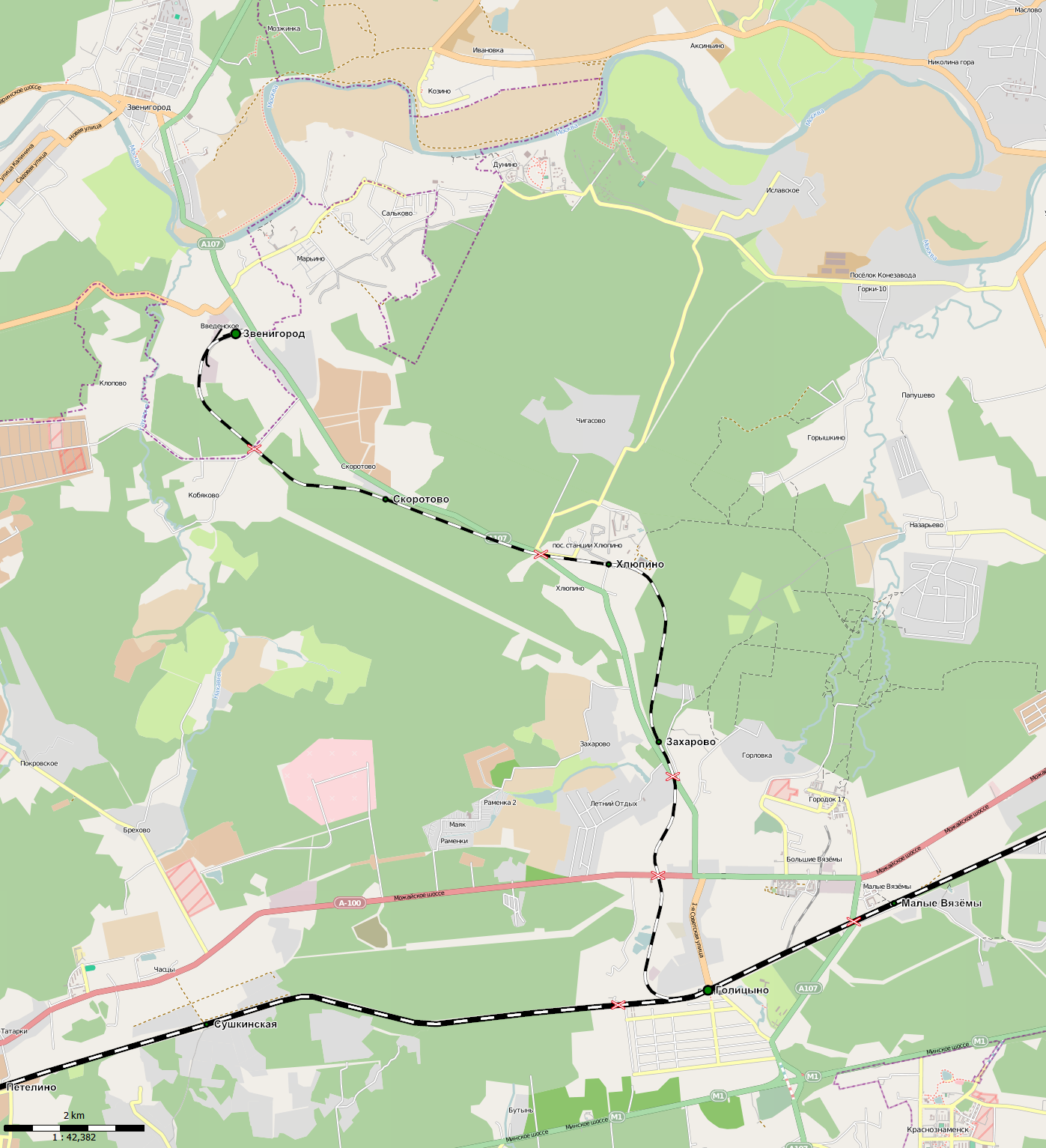 Railway branch Golitsyno - Zvenigorod by OpenStreetMap data. Moscow oblast.